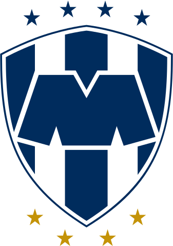 C.F. Monterrey logo